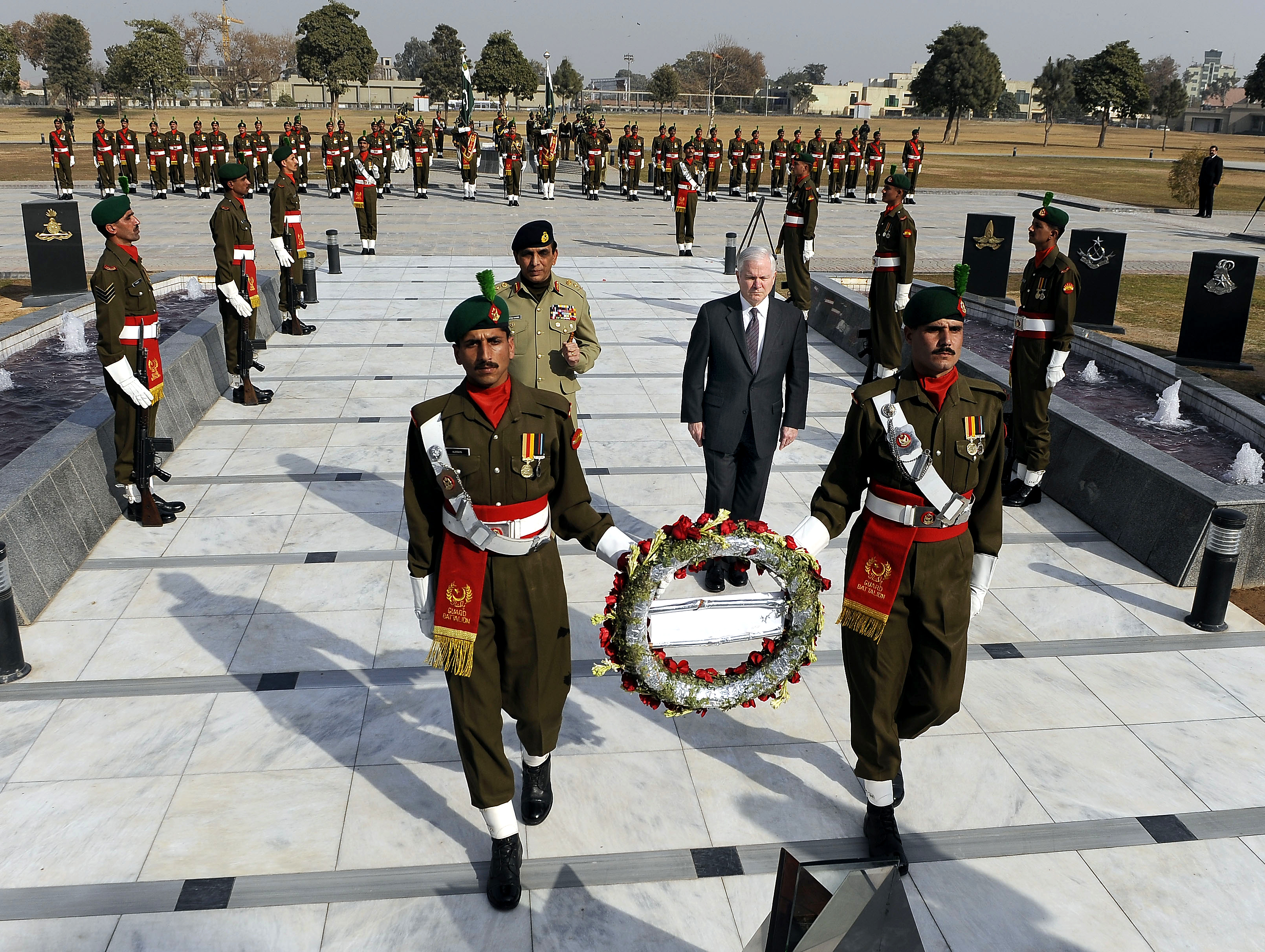 U.S. Defense Secretary Robert M. Gates, right, attends a wreath laying ceremony with Pakistani Army Chief General Ashfaq Parvez Kayani at the Pakistani army's General Headquarters in Rawalpindi, Pakistan, Jan. 21, 2010.